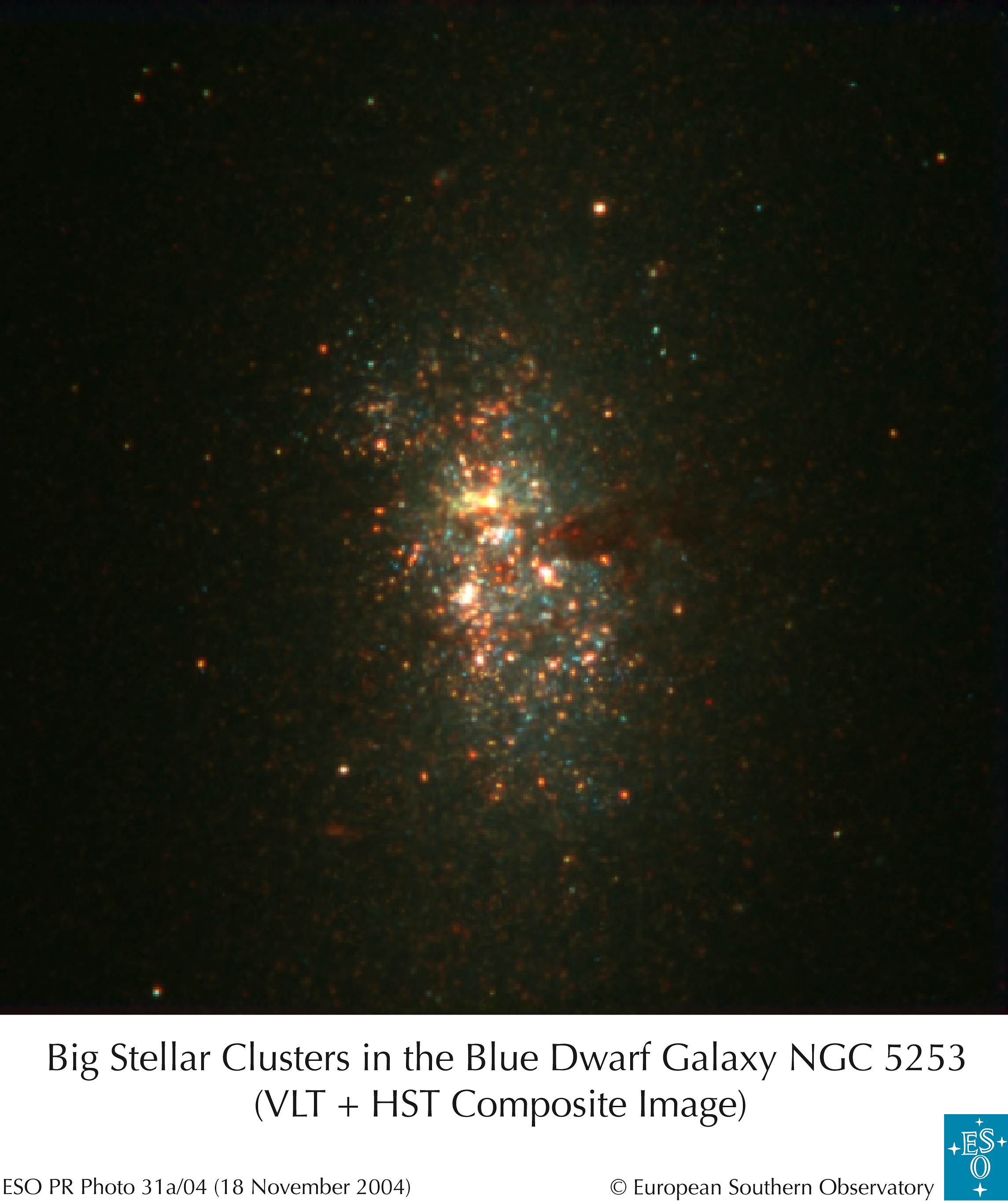 This ESO image shows a composite colour-coded image of the small starburst galaxy NGC 5253, at a distance of 11 million light-years. It is based on one near-infrared image (in the K-band at wavelength 2.16 μm; here coded red) obtained with the ESO Very Large Telescope (VLT) and two images in the visual spectral region (V- (0.55 μm) and I-bands (0.79 μm), here blue and green, respectively) with the NASA/ESA Hubble Space Telescope (HST). The image covers 80 x 80 arcseconds on the sky. North is up and East is to the left.